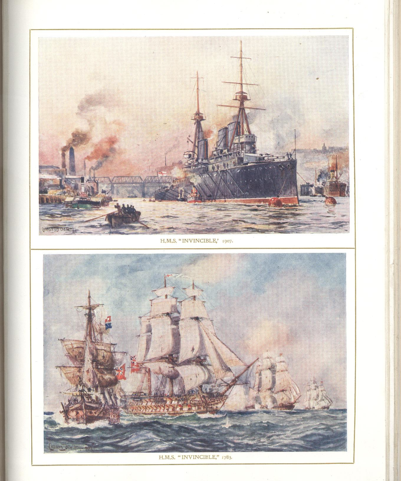 Charles John De Lacy provided two paintings of different HMS Invincibles for the shipyard launch ephemera of W G Armstrong Whitworth. The original ephemera is in Tyne & Wear Archives & Museums item 450/1.